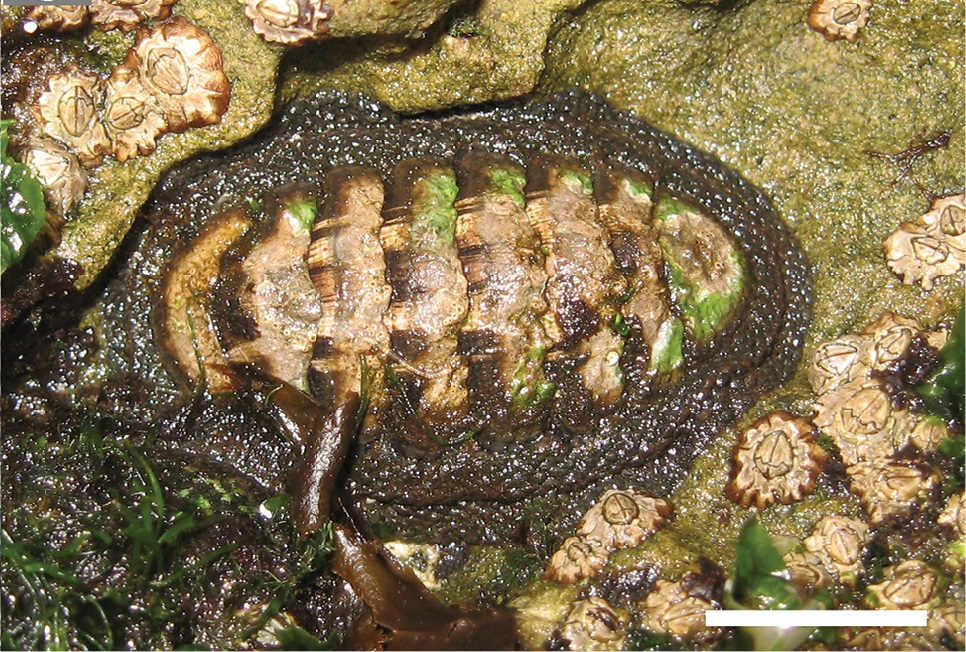 Chiton granosus, Playa Mansa, Chile. Scale bar = 1 cm